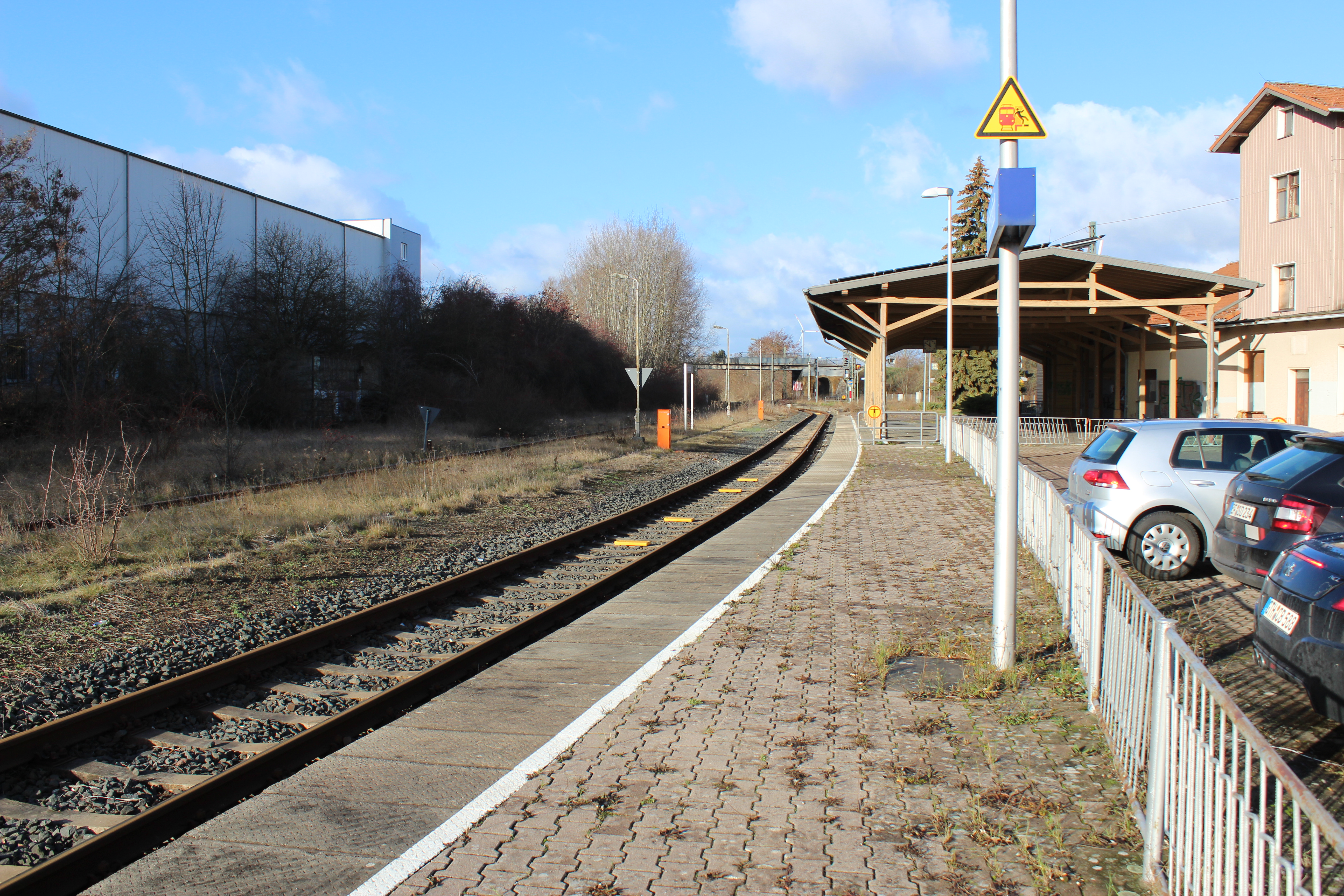 train station Fröttstädt, rail to Friedrichroda